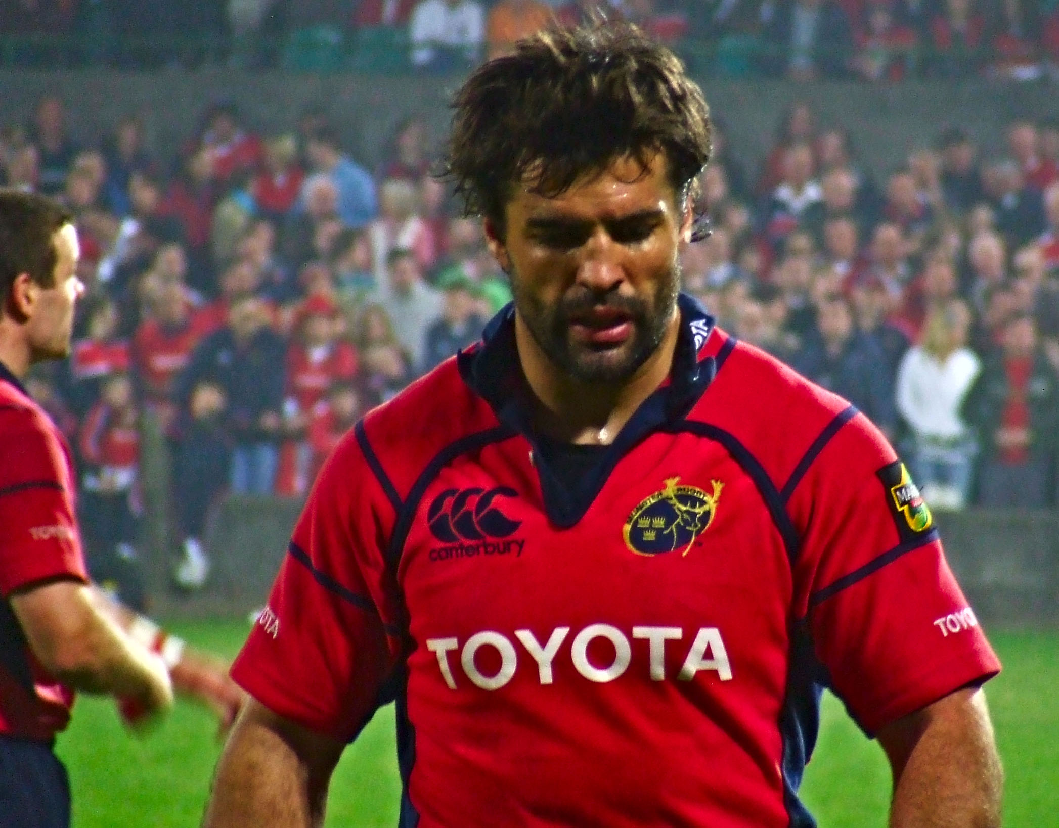 Munster's newest signing Brian Carney. He's one of our best additions in a long time - real quality in both attack and defense.